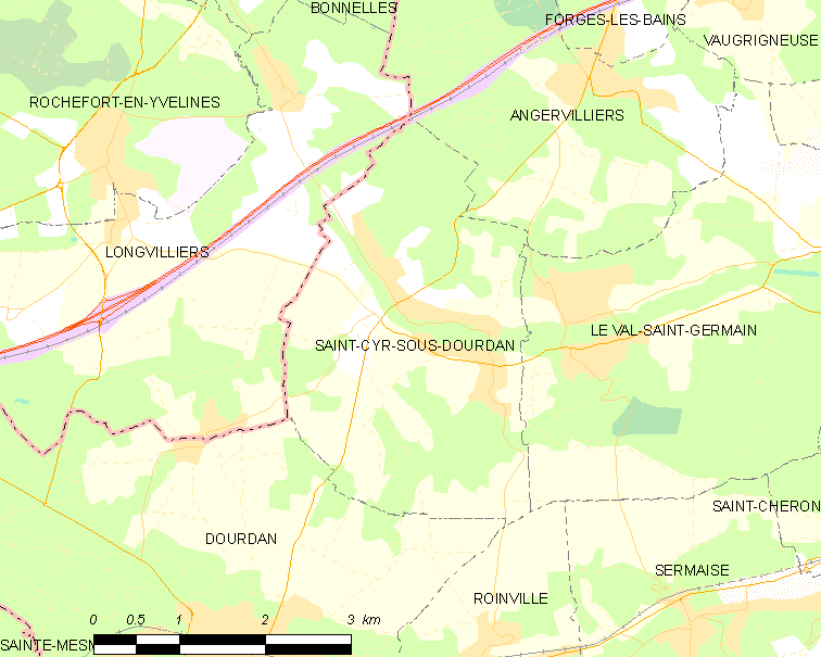 Map of French municipality Saint-Cyr-sous-Dourdan